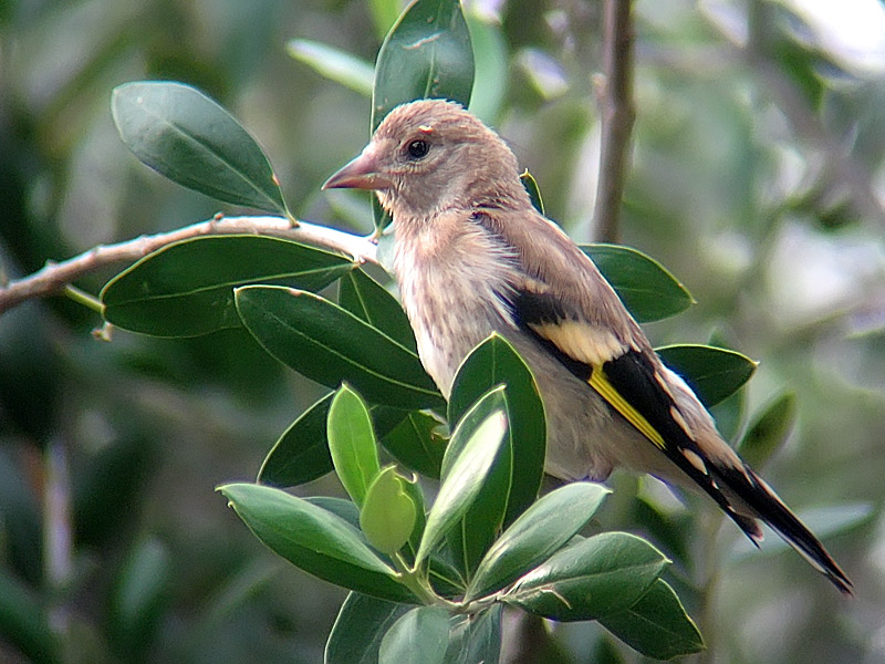 Spanish goldfinch juvenil resting. Place: Sevilla